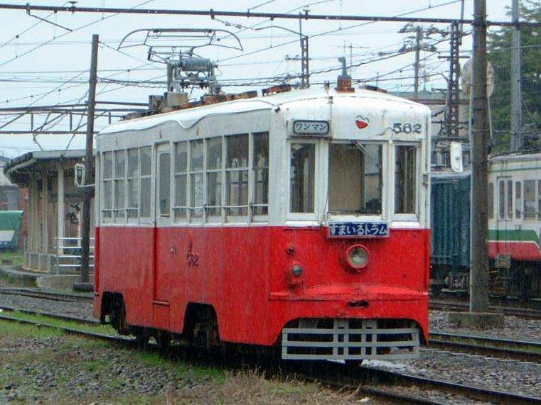 Fukui-tetsudo type560(Japan). This photo is taken from FukuiShin station.（福井鉄道560形電車画像（562号：福井新駅にて））